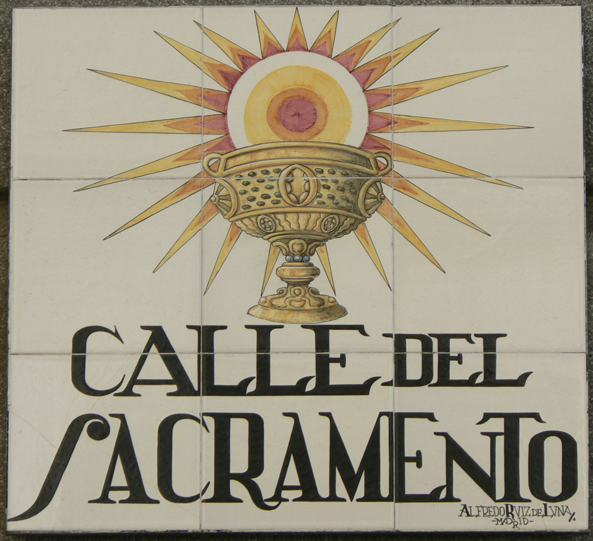 Sign of Calle del Sacramento (street, Centro district) in Madrid (Spain).